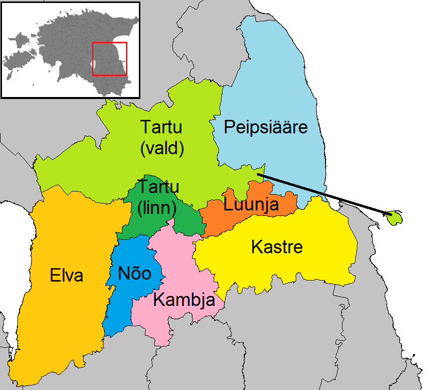 Map of the municipalities of Tartu County after the Administrative Reform of Estonia in 2017.